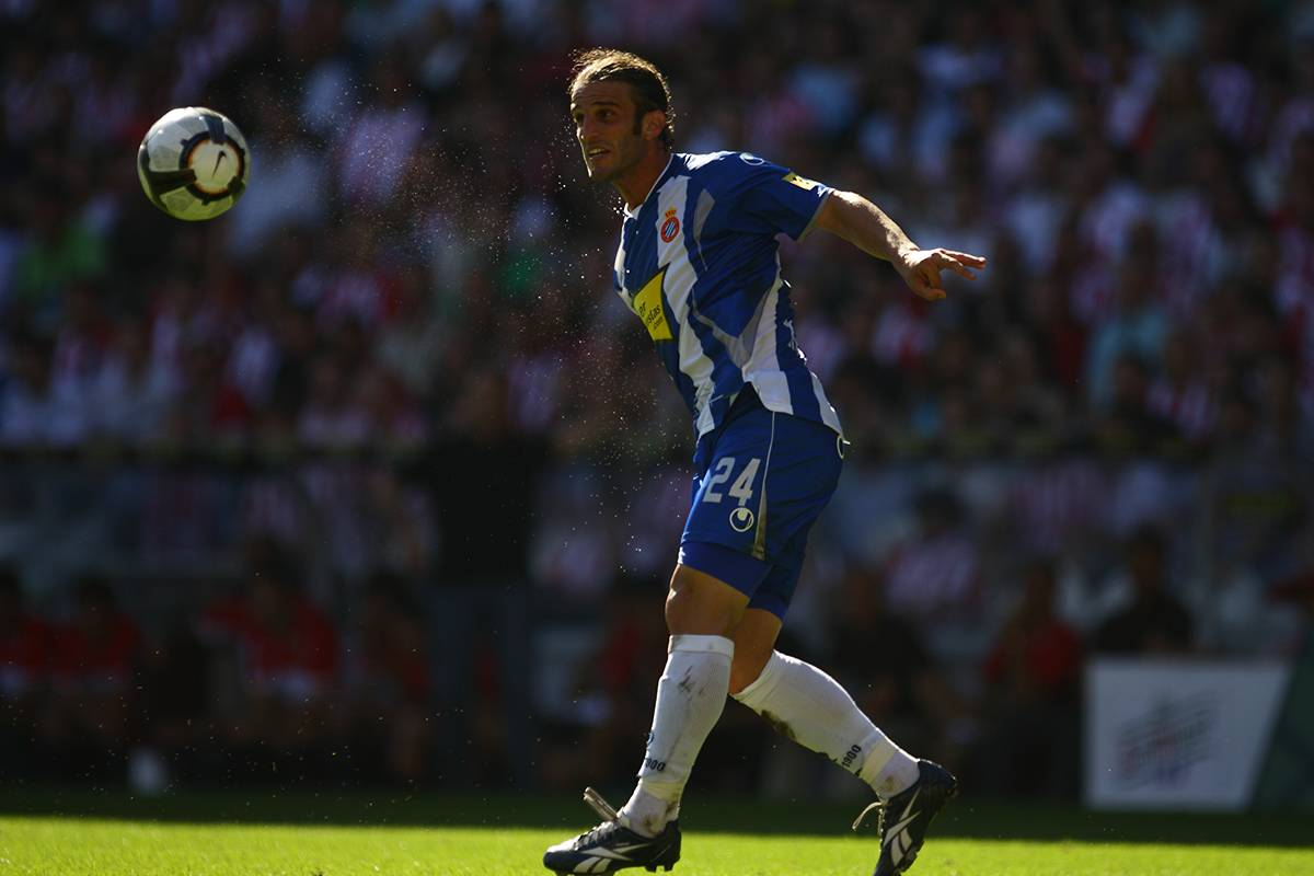 AUGUST 30, 2009 - Football : La Liga match between Athletic Club and RCD Espanyol at the San Mames on August 30, 2009 in Bilbao, Spain. (Photo by Tsutomu Takasu)